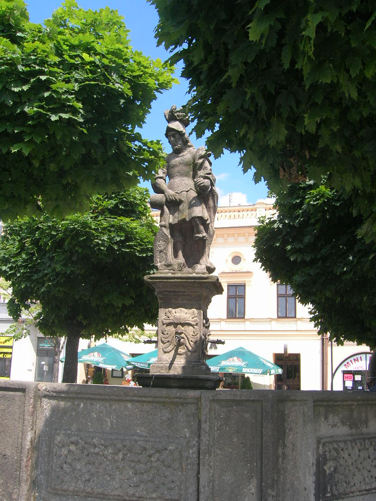 Fountain with statue of Saint Florian in Lipník nad Bečvou.